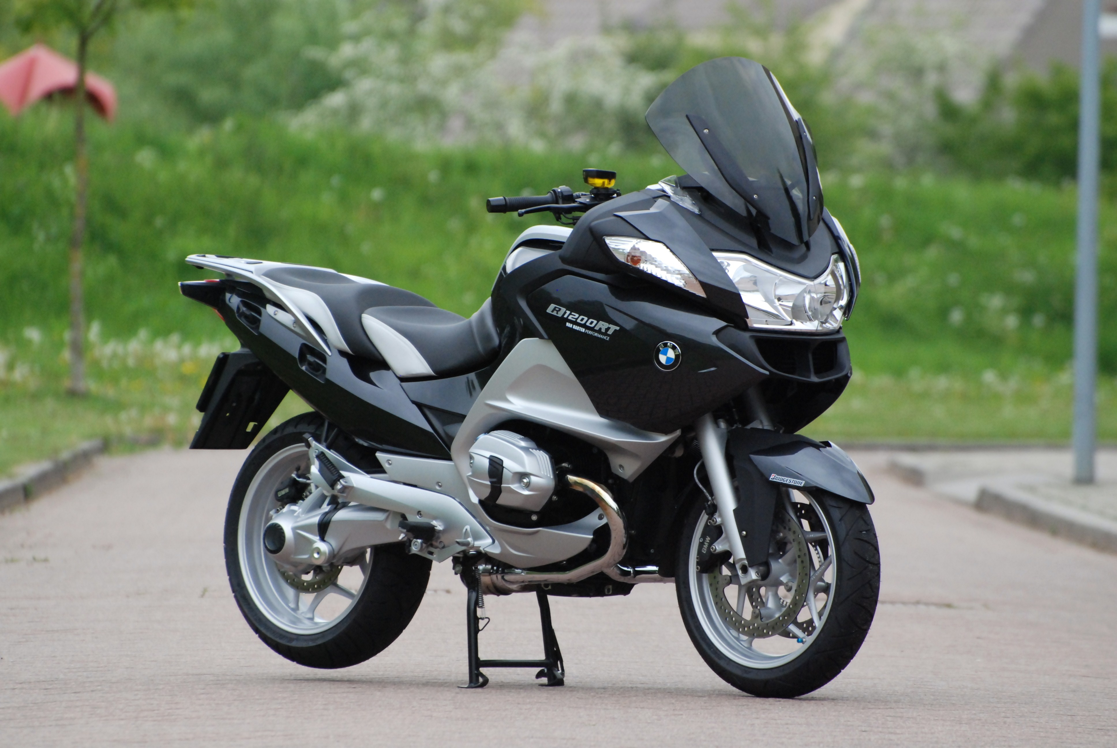 BMW R1200RT Special